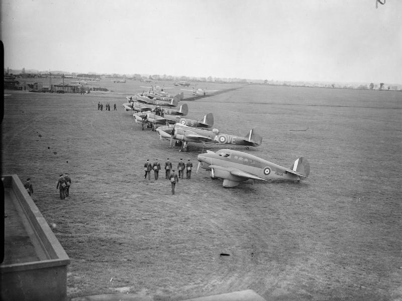 Royal Air Force Bomber Command, 1939-1941. Percival Q.6 “Petrel”, P5634, of the RAF Northolt Station Flight, parked at the head of a line of Bristol Blenheim Mark IVs of No. 2 Group at Wyton, Huntingdonshire. R3741 'VE-A' of No. 110 Squadron RAF has been modified by the addition of gun mountings in the rear of the engine nacelles, while T1947 'LS' of No. 15 Squadron RAF has been fitted with a long gun tray beneath the nose.